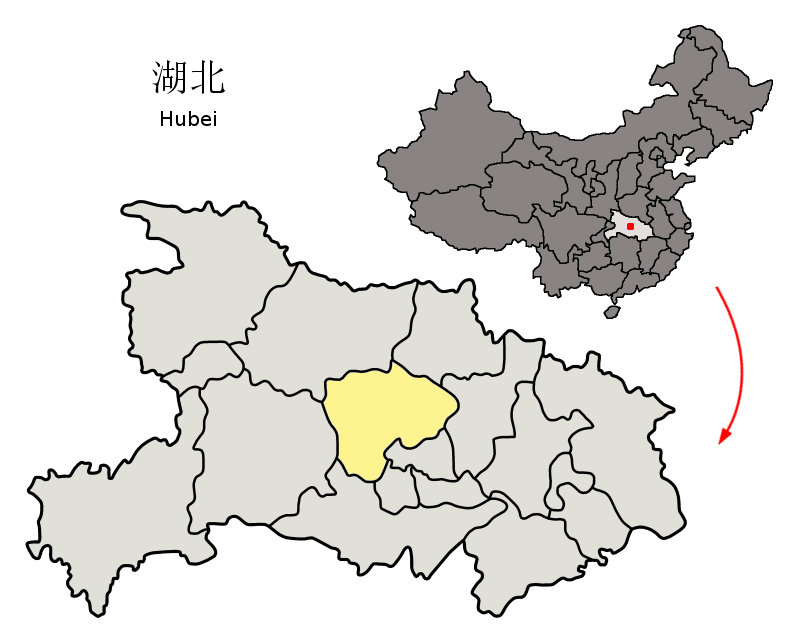 Location of Jingmen Prefecture (yellow) within Hubei Province of China Map drawn in december 2007 using various sources, mainly : Hubei Province administrative regions GIS data: 1:1M, County level, 1990 Hubei Counties map from